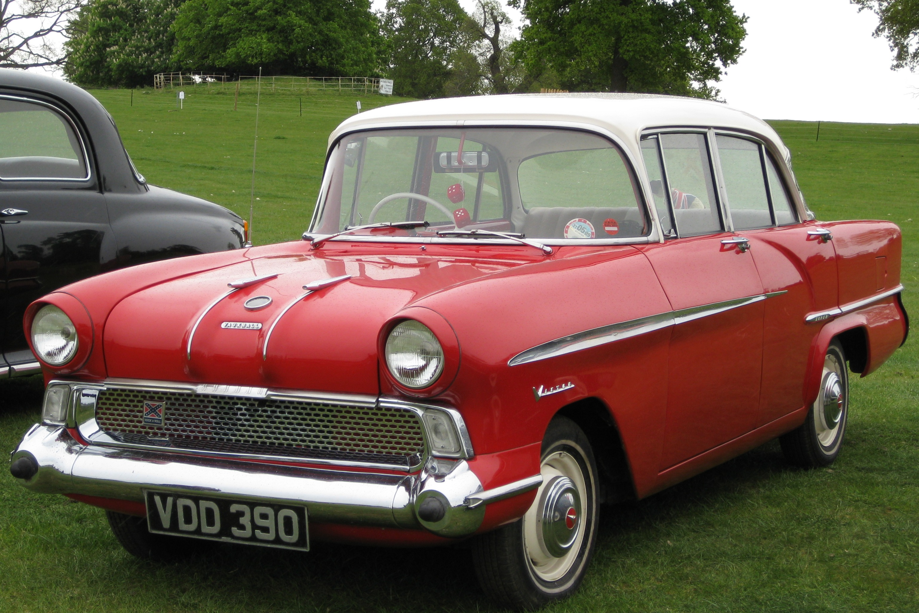 Vauxhall Victor FA first registered 1958